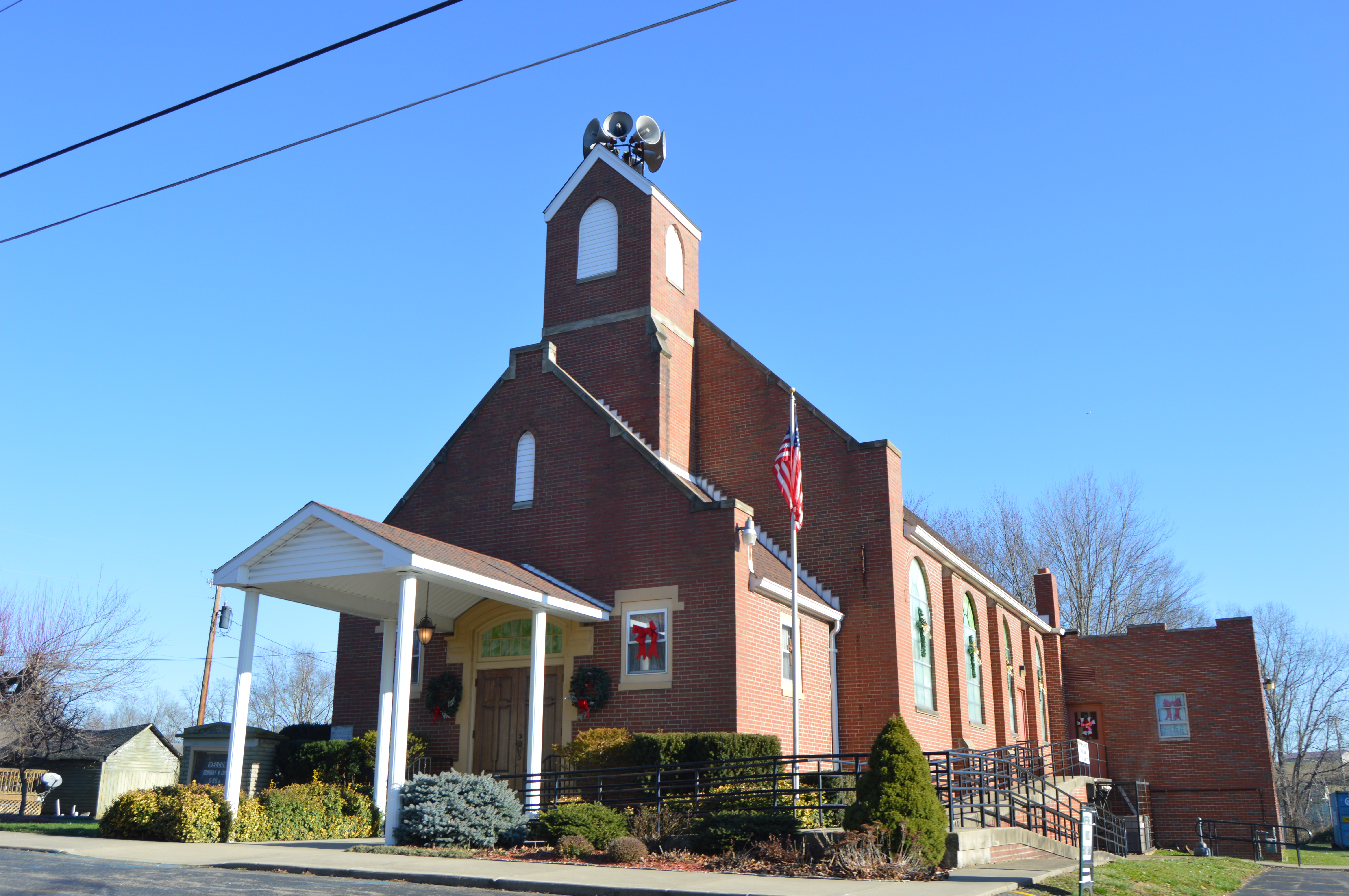 Front and southern side of the Minford United Methodist Church, located at 510 East Street in Minford, Ohio, United States.